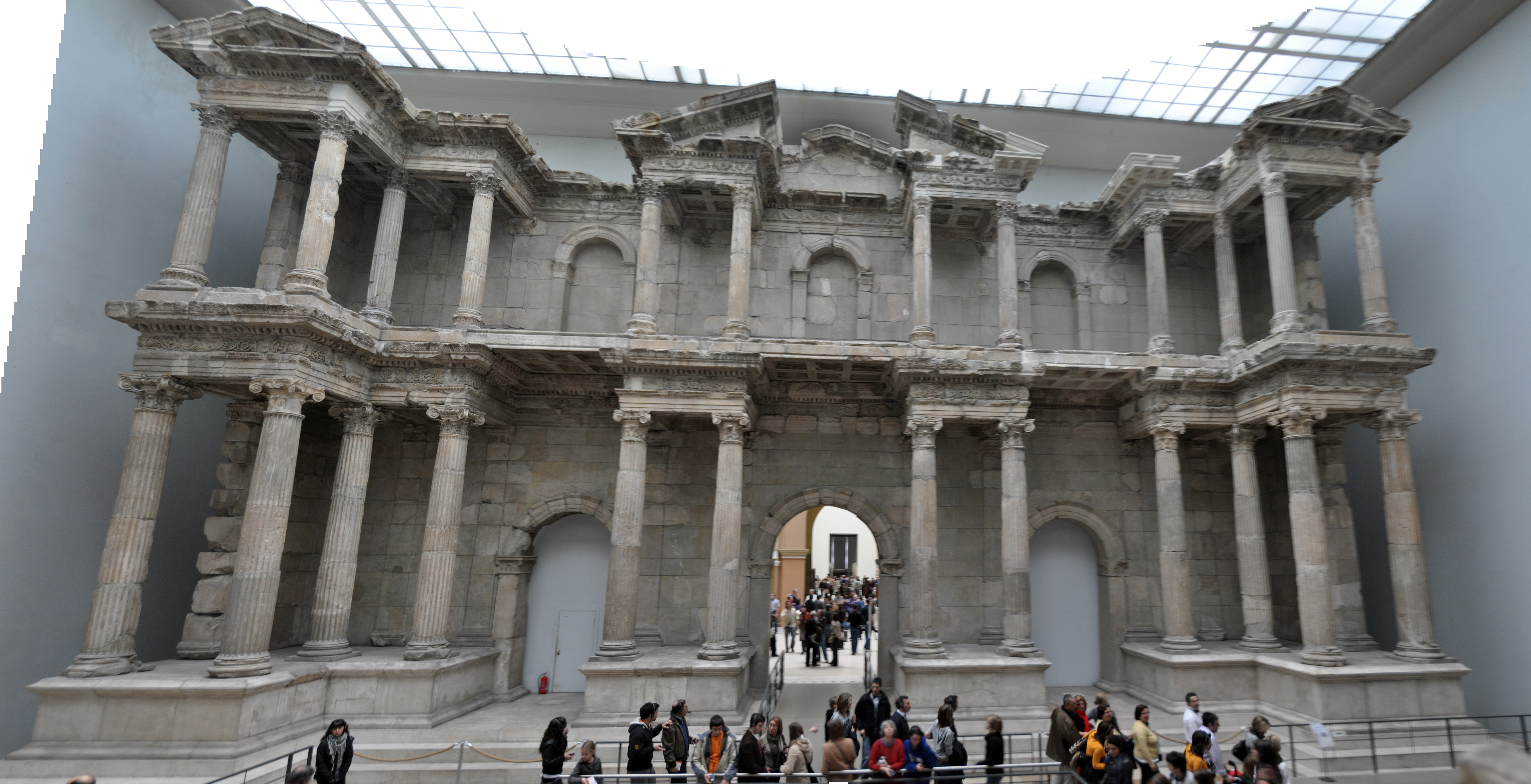 Market Gate of Miletus - from 120 A.D.